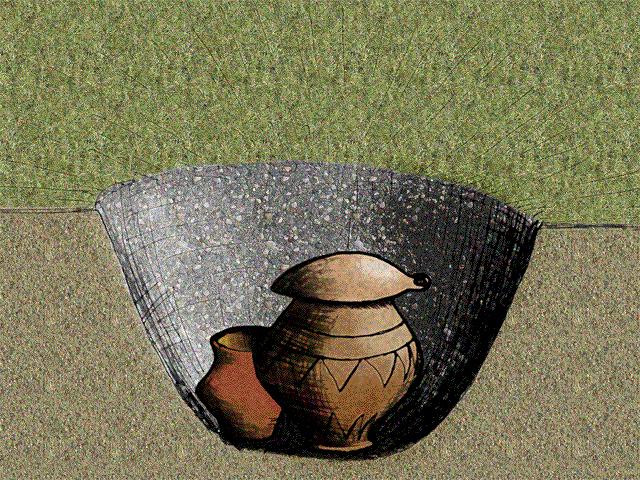 Typical burial from the Urnfield culture in the Final Bronze Ages of Center Europe